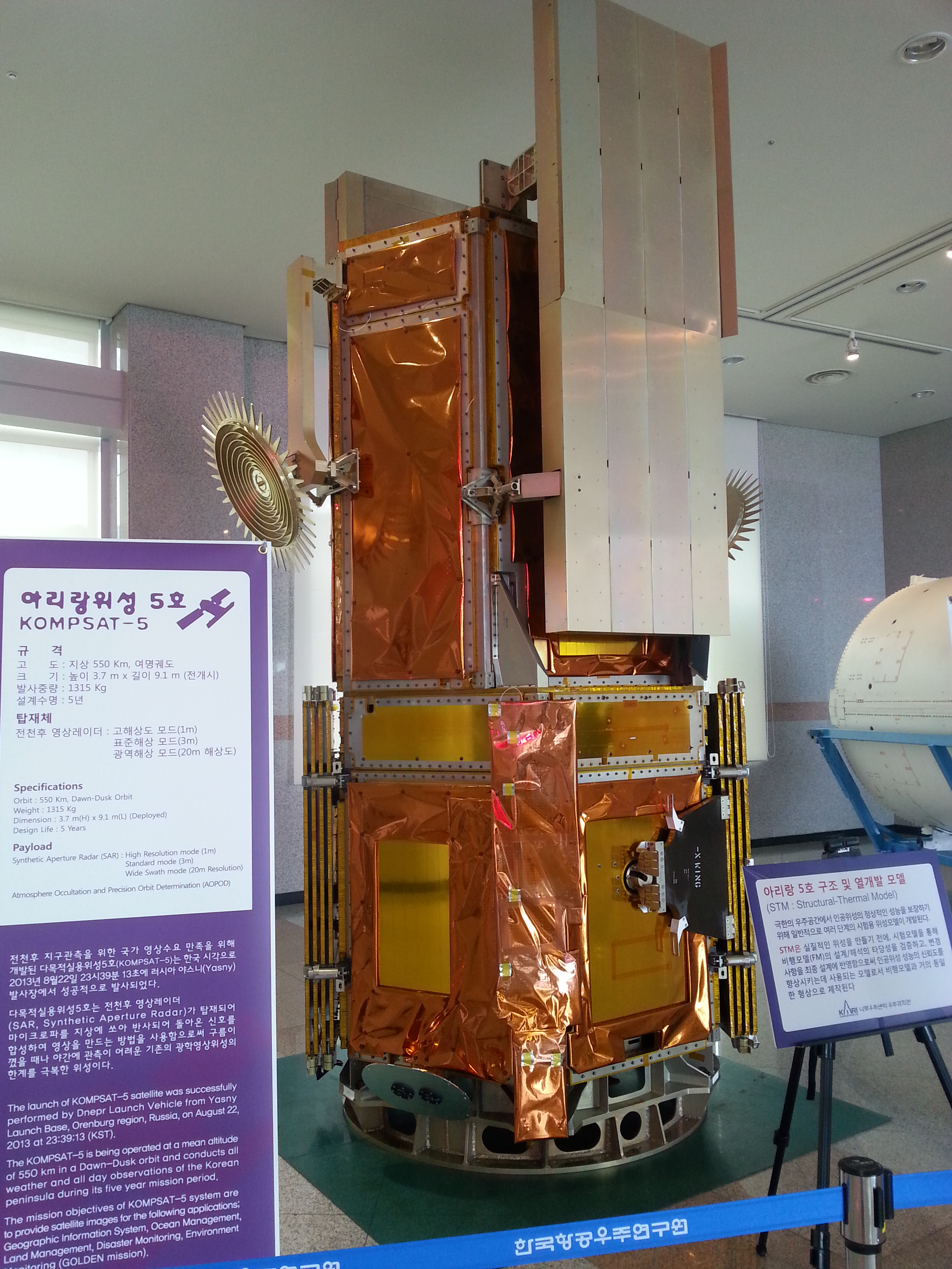 Structural-Thermal Model of KOMPSAT-5, displayed at Space Science Museum in Naro Space Center.